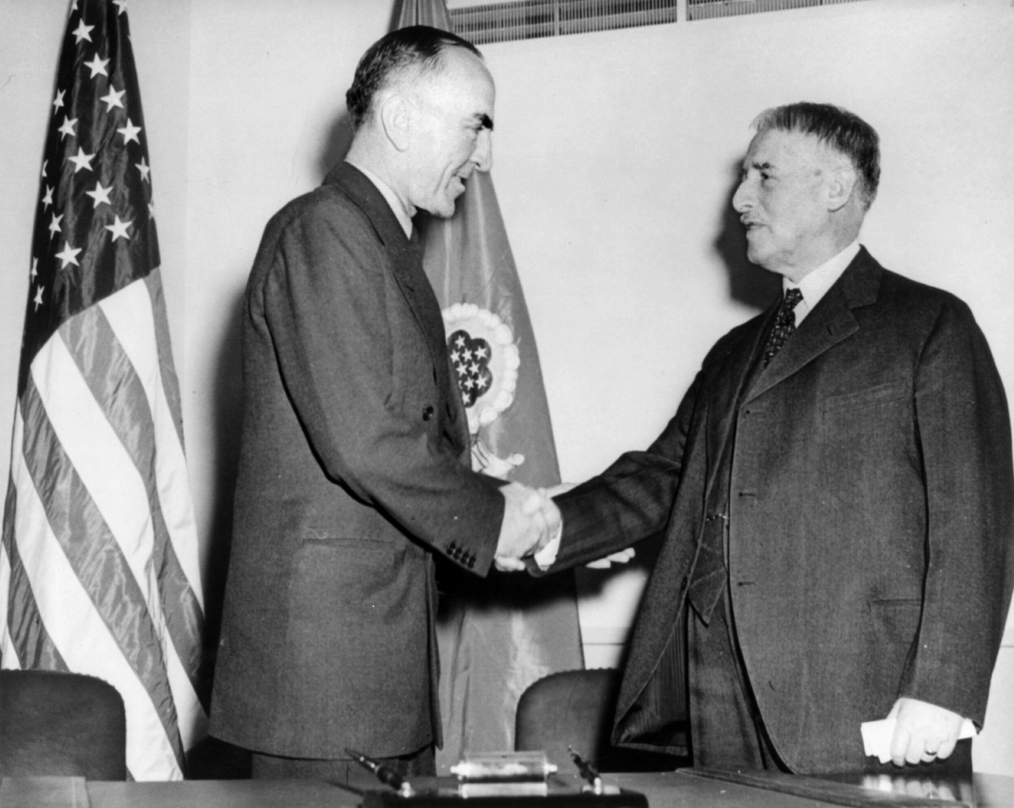 Eddie Rickenbacker (left) shaking hands with Henry L. Stimson (right)